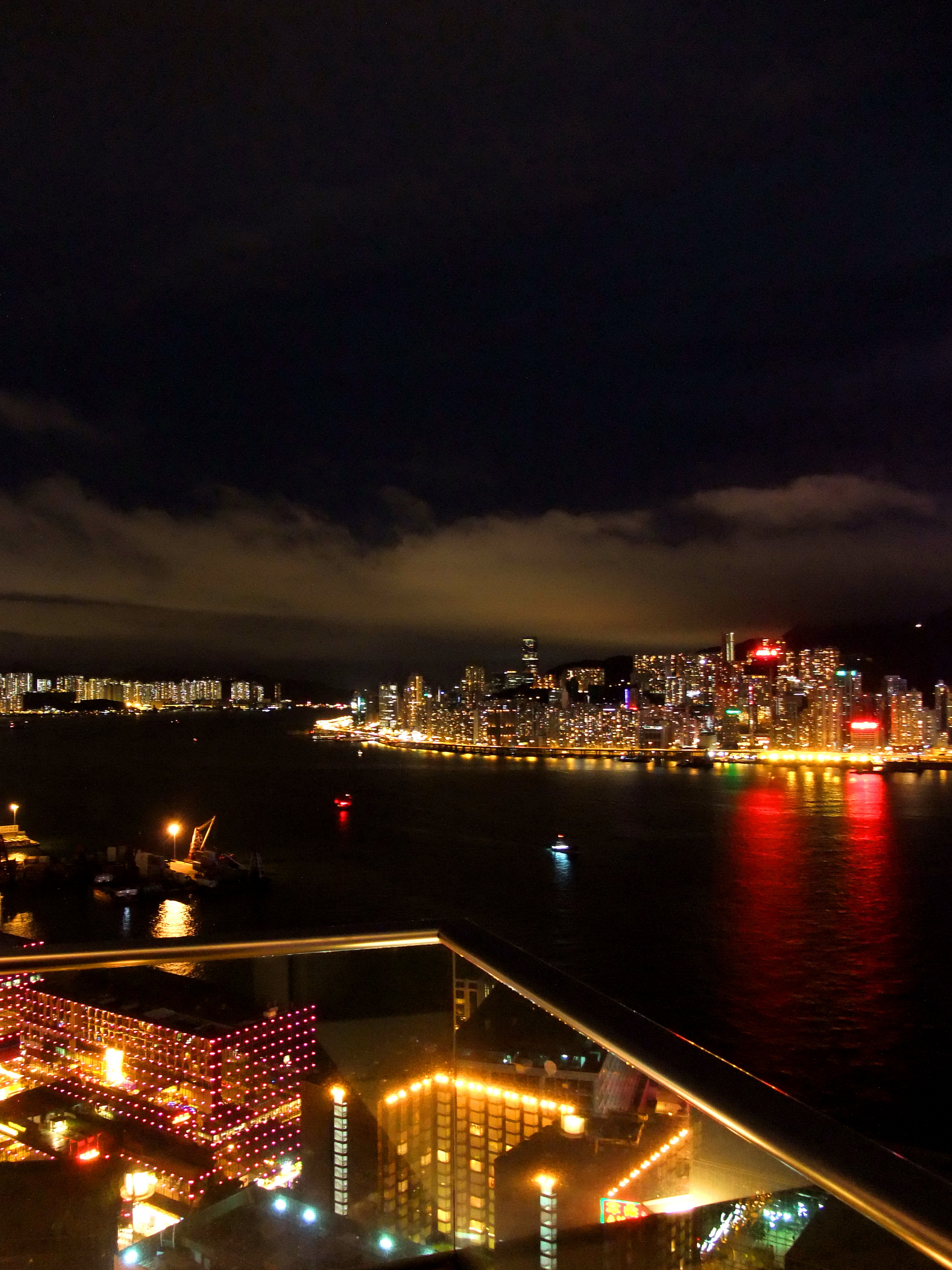 Viewing from the Sky Garden at the Hotel Panorama, Tsim Sha Tsui, Hong Kong.